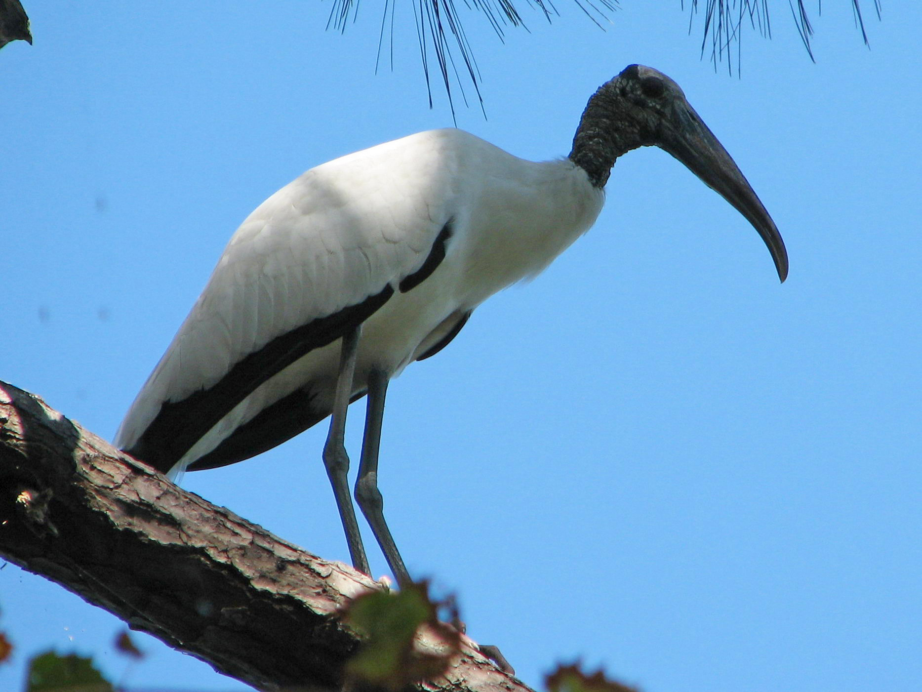 Wood Stork (Mycteria americana) at Twin Lakes, Sunset Beach, North Carolina